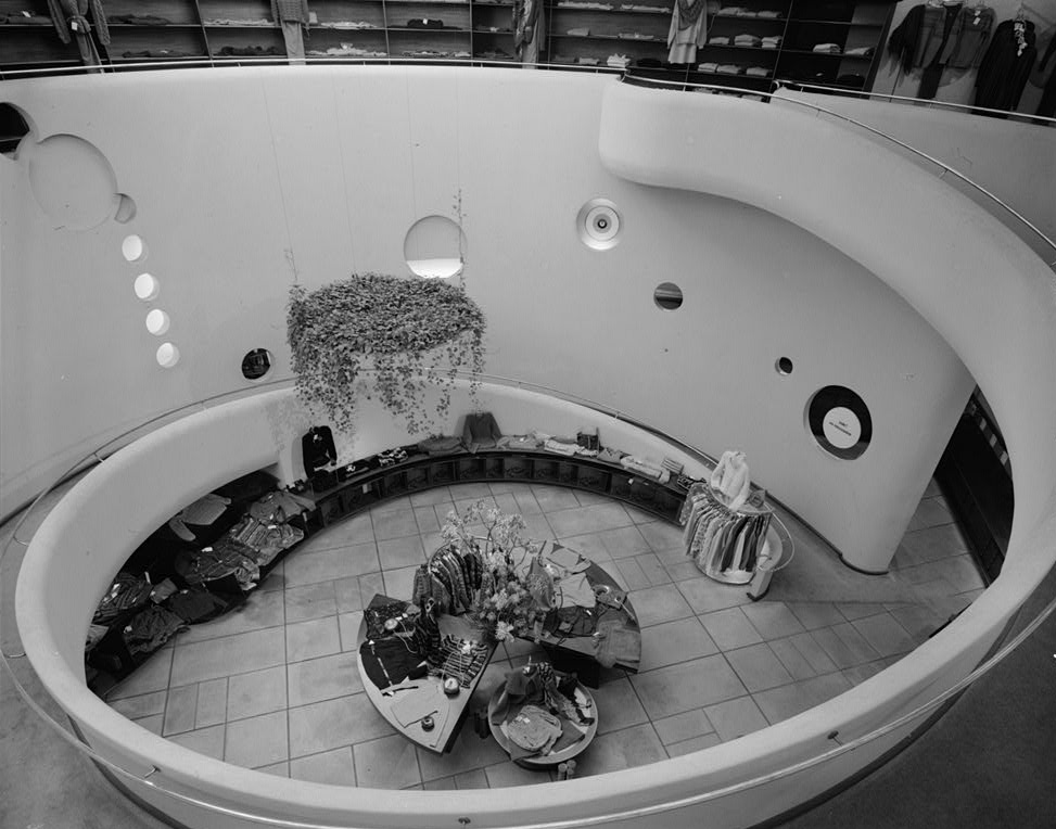 V. C. Morris Gift Shop, 140 Maiden Lane, San Francisco, San Francisco County, CA - view from near top of ramp down to first floor. Historic American Buildings Survey—HABS image.